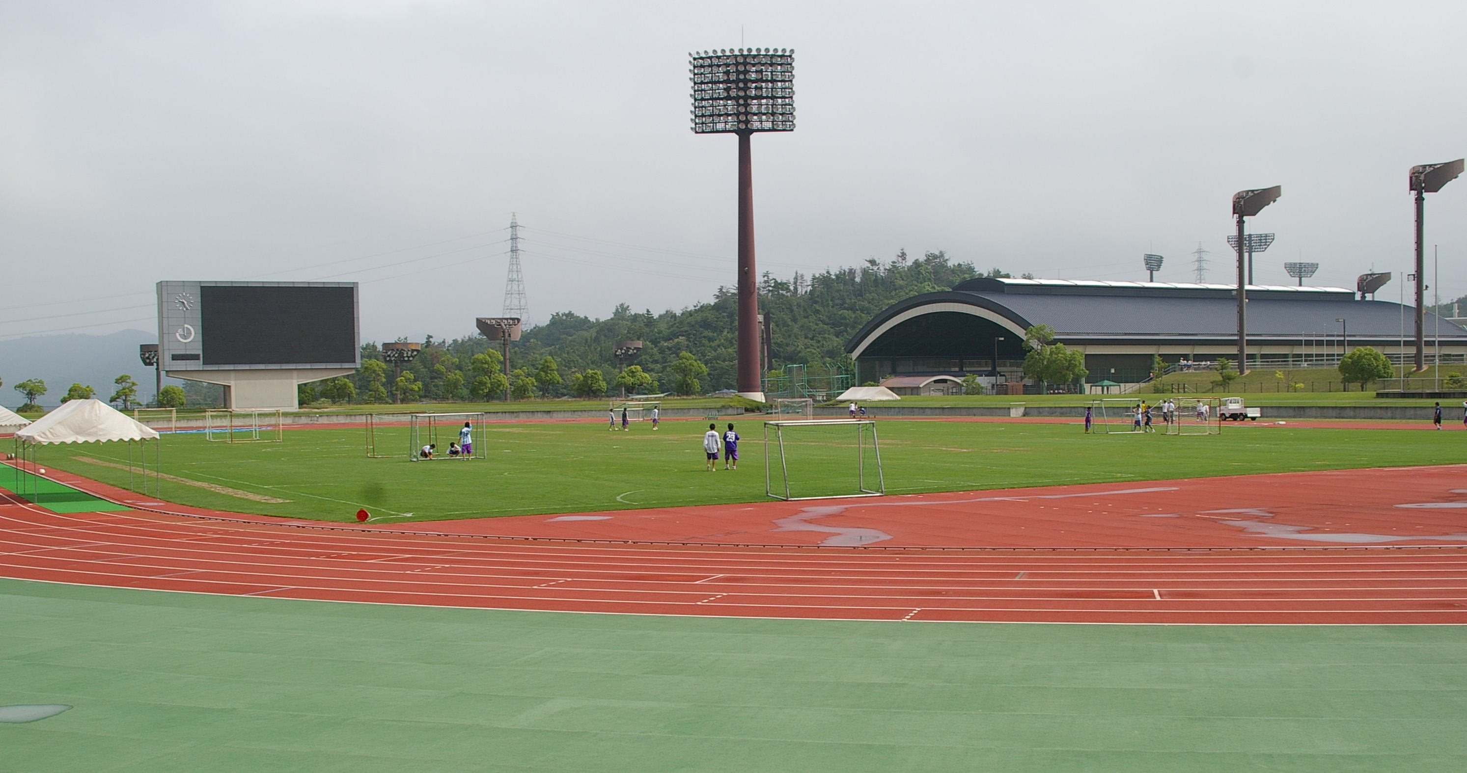 Bingo Sports Park Main Stadium